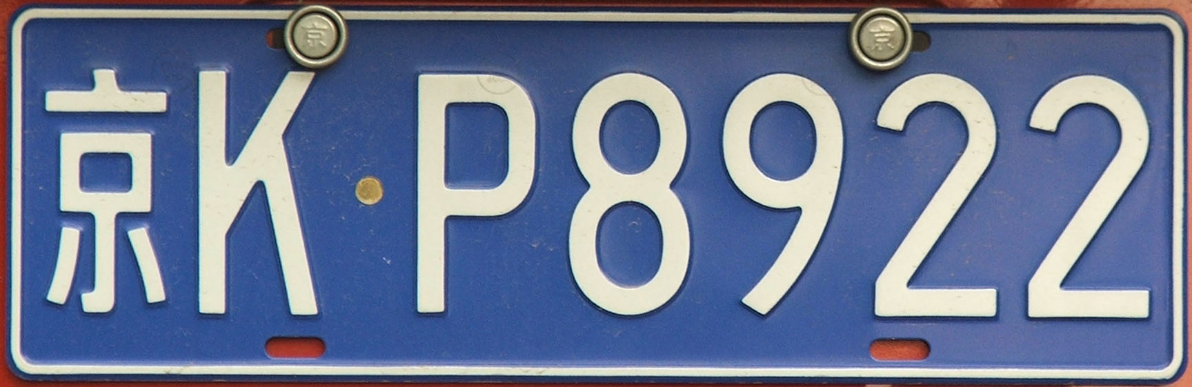 Vehicle licence plate from China as seen in 2008.